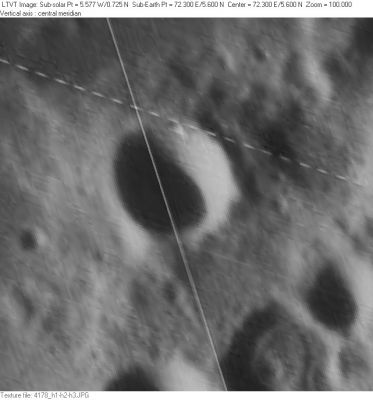 Boethius crater LO-IV-178H LTVT image